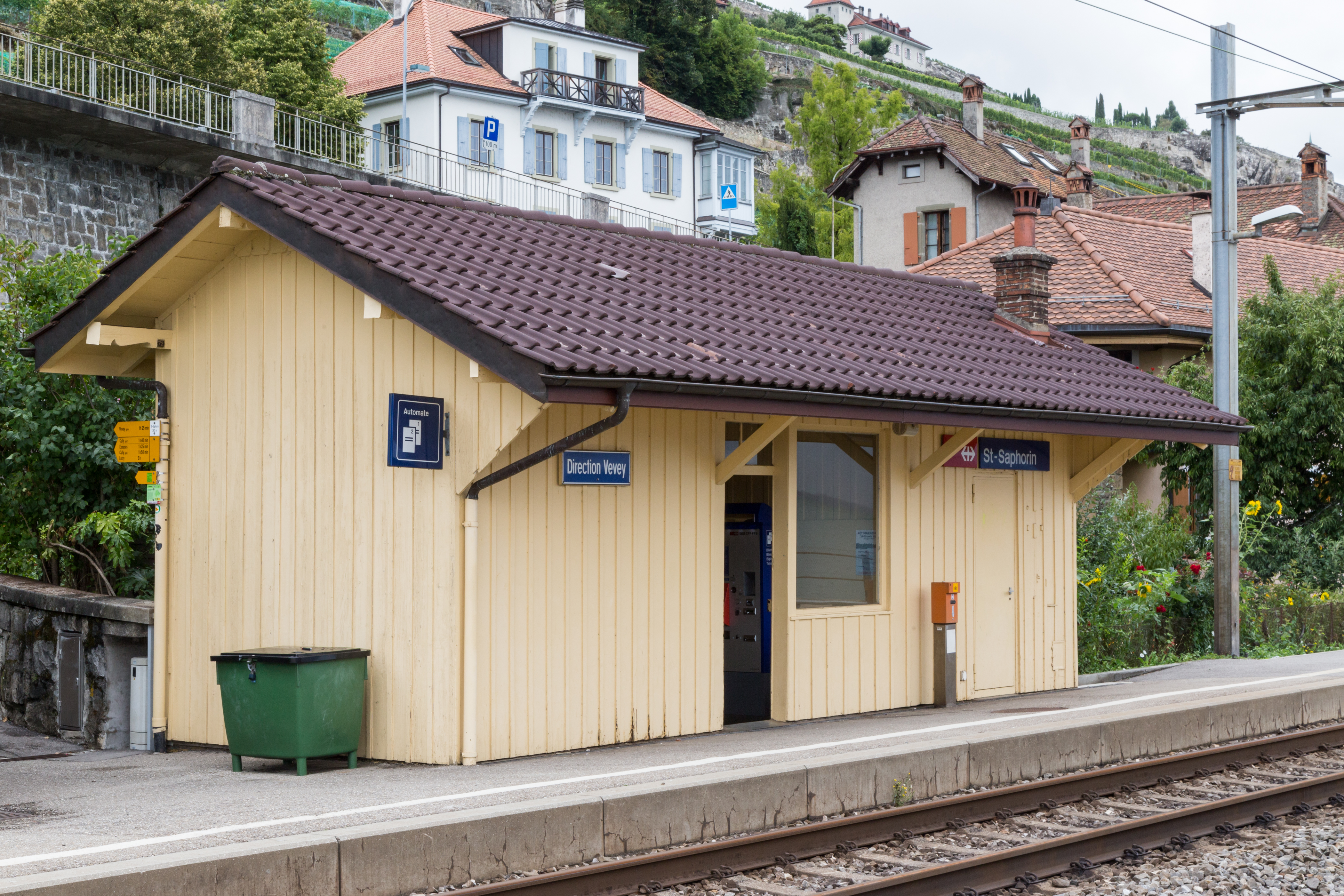 St-Saphorin train station